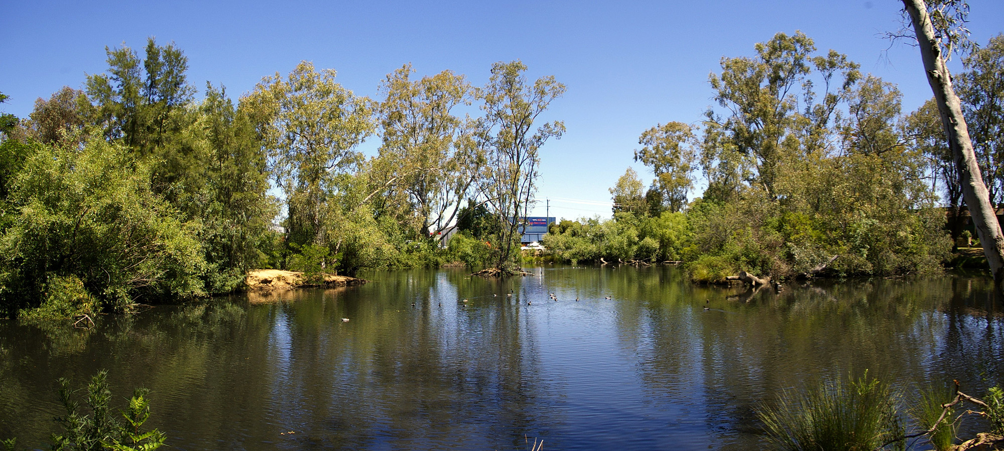 Wollundry Lagoon near Forsyth Street.